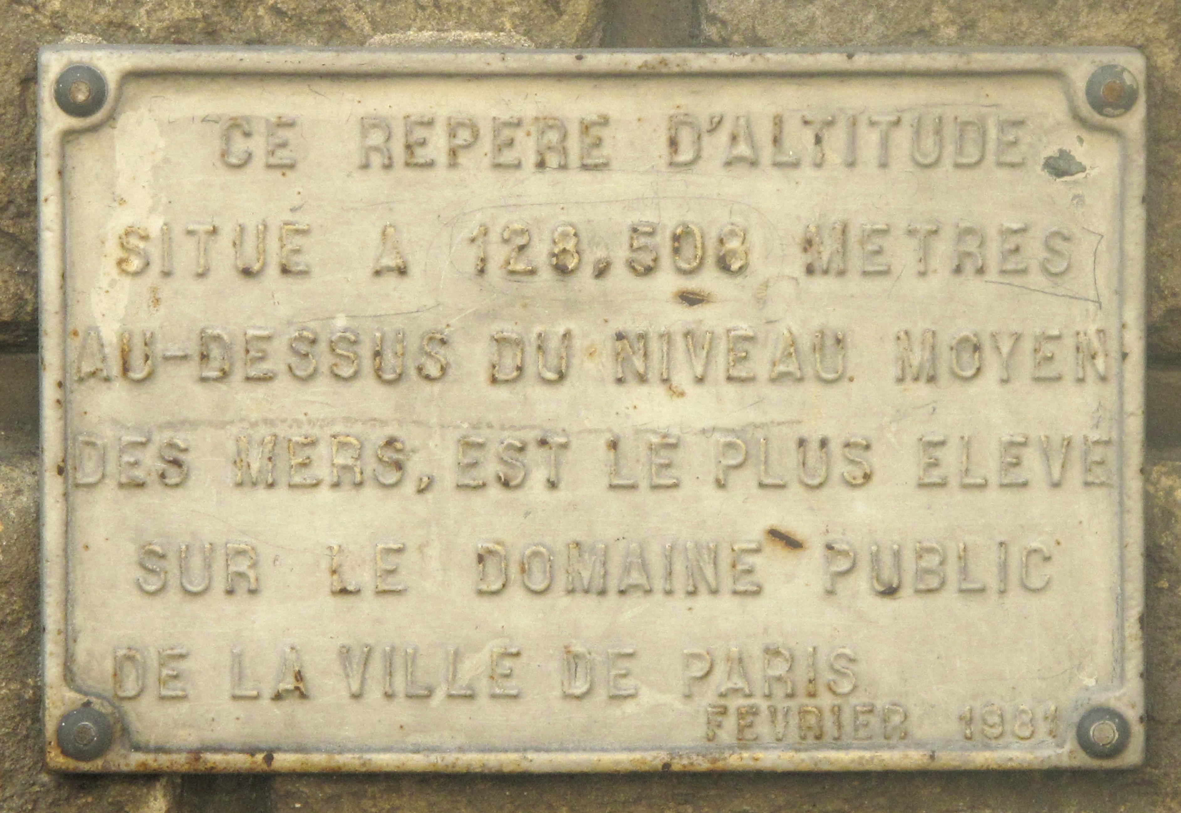 Plaque showing the highest ground in Paris : place du Télégraphe, Paris 20th arr. The text is : This altitude mark at 128,508 m above sea level is the highest place on the public domain of the town of Paris.